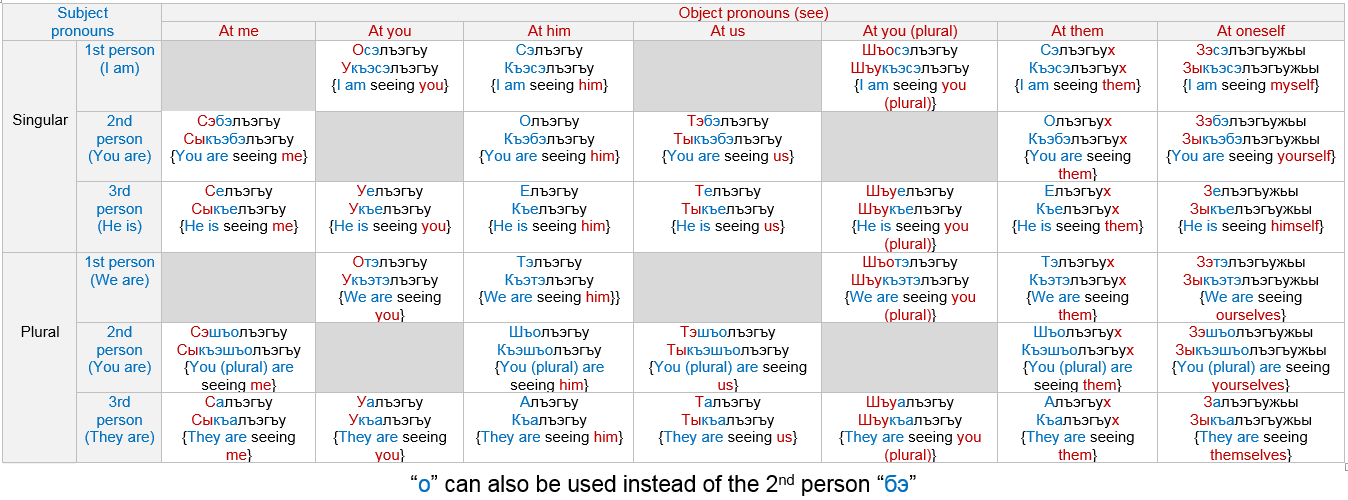 ErgativeTransitiveVerbs